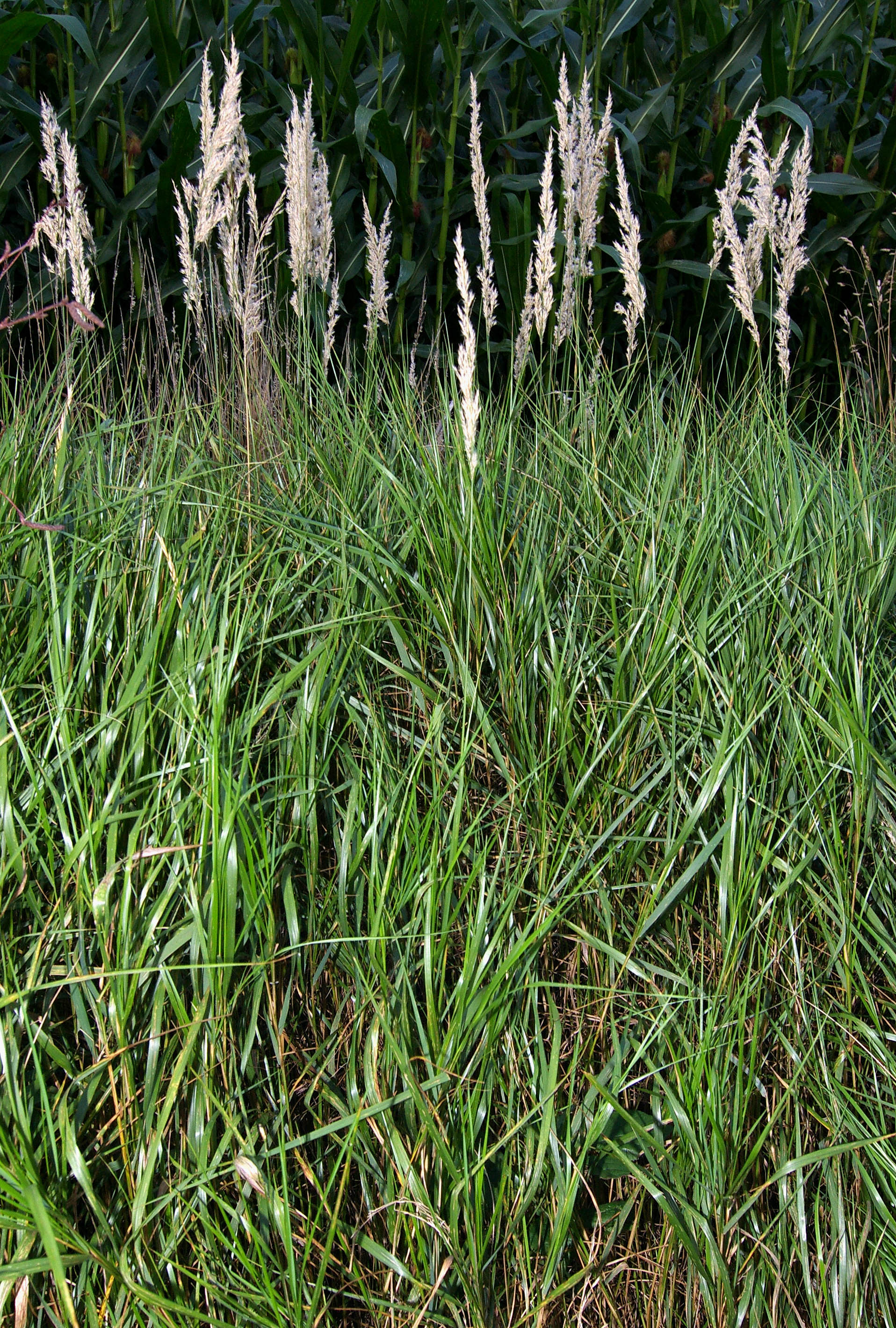 The grass Calamagrostis canescens.